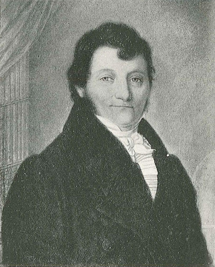 Nils Henrik Sjöborg (1767-1838), Swedish historian and antiquarian, professor at Lund University.